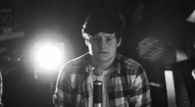 Luke Jackson, 2015